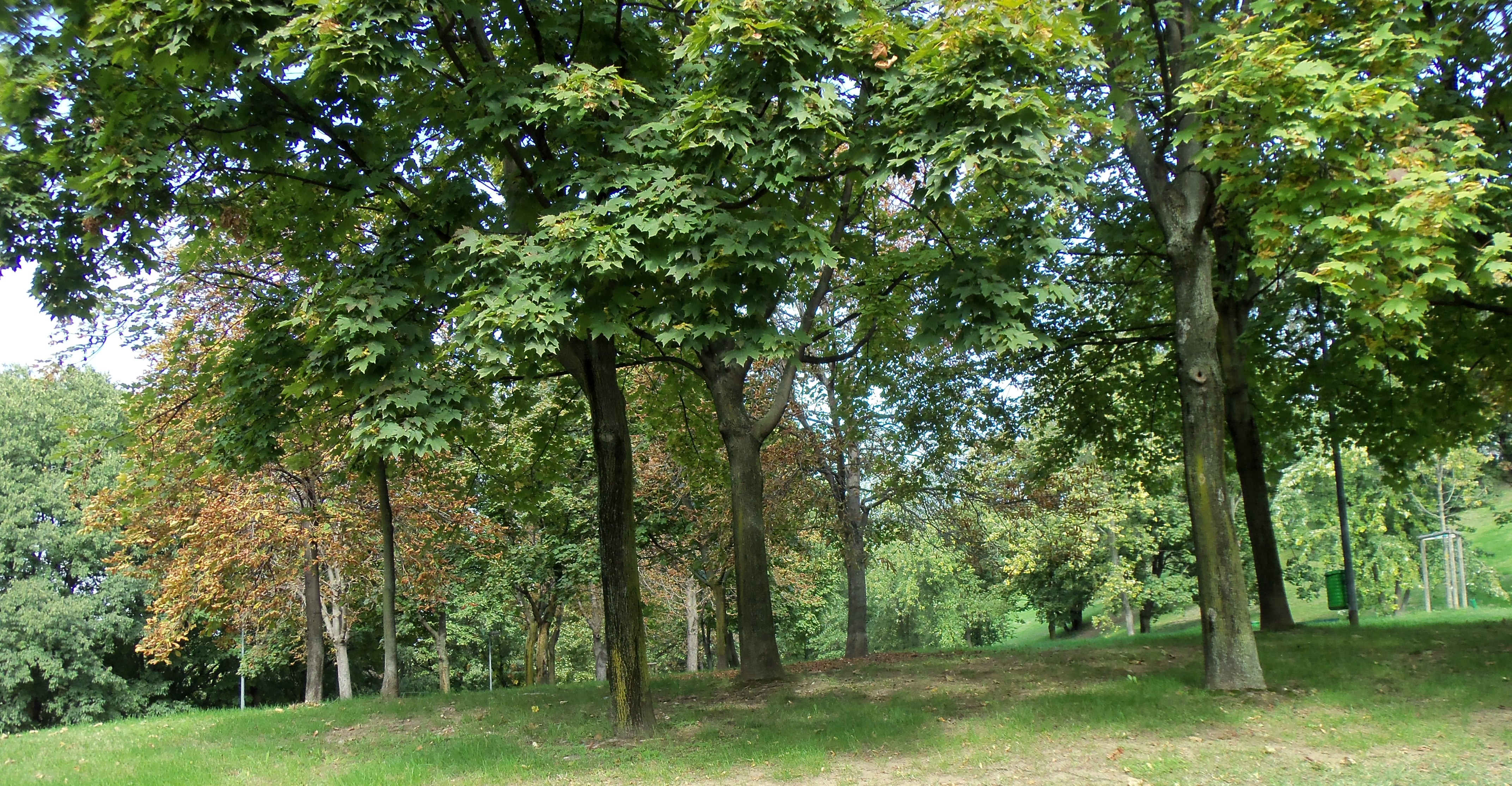 Milano, a corner of Monte Stella park